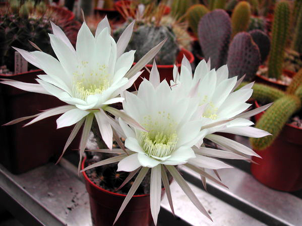 Echinopsis ancistrophora subsp. anicistrophora